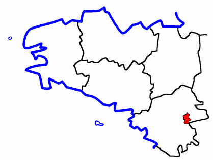 Description: Map for localisazion of cantons of Pays-de-Loire, region in France Source: made by Hervé Tigier in april 2005 from another large map (published in 1990)